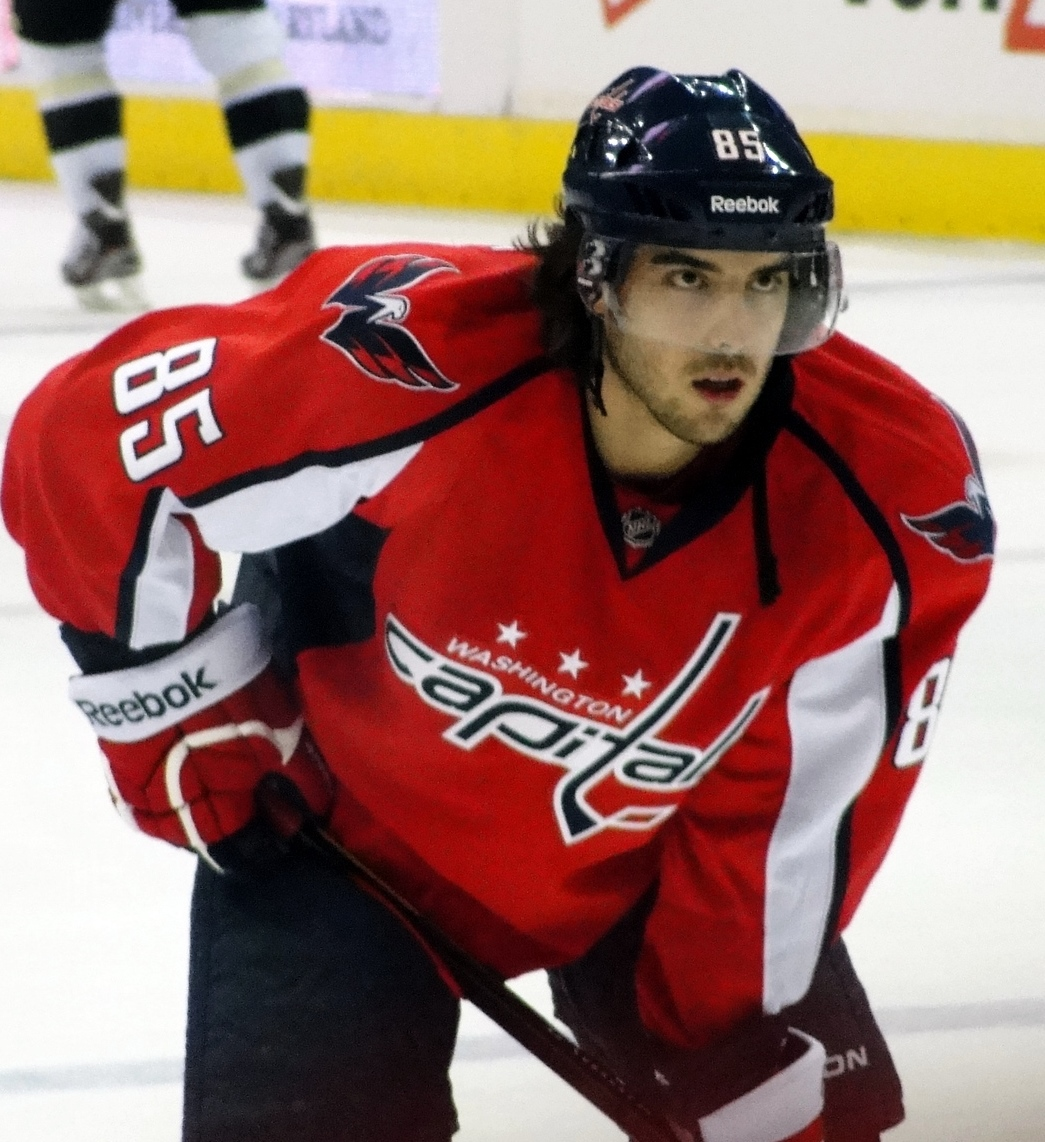 Matthieu Perreault of the Washington Capitals warms up before a game against the Pittsburgh Penguins at Verizon Center in Washington, D.C. January 11, 2012. From PensAreYourDaddy